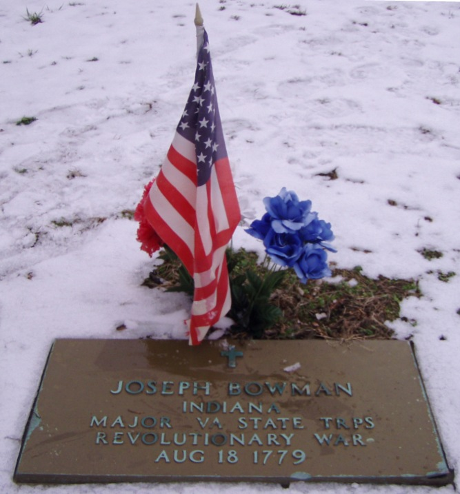 Government marker for Joseph Bowman, Old Cathedral Cemetery, Vincennes, Indiana